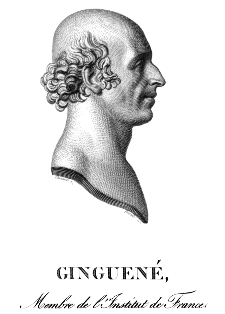 Portrait of Pierre-Louis Ginguené in Histoire littéraire d'Italie L.-G. Michaud (Paris) 1824, Pierre-Claude-François Daunou, ed., 9 vol. ; in-8..